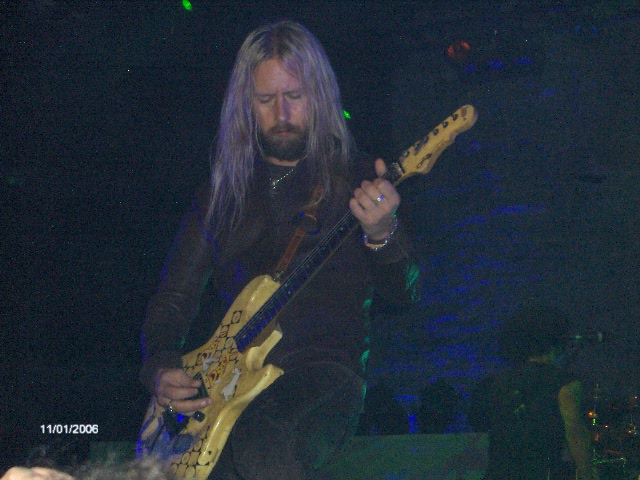 Jerry Cantrell live at the New York, 2006